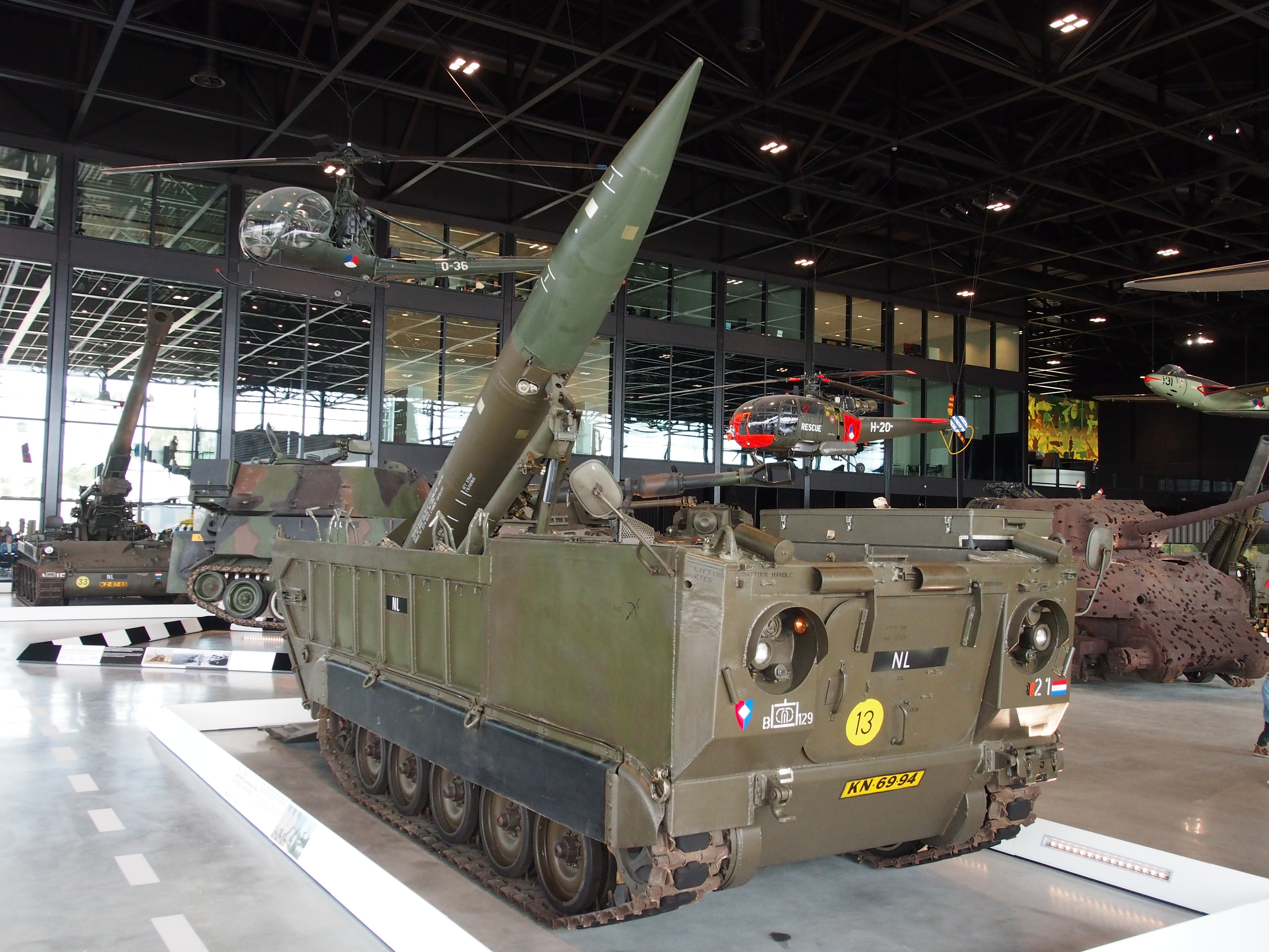 Photographed at the Nationaal Militair Museum, Soesterberg.